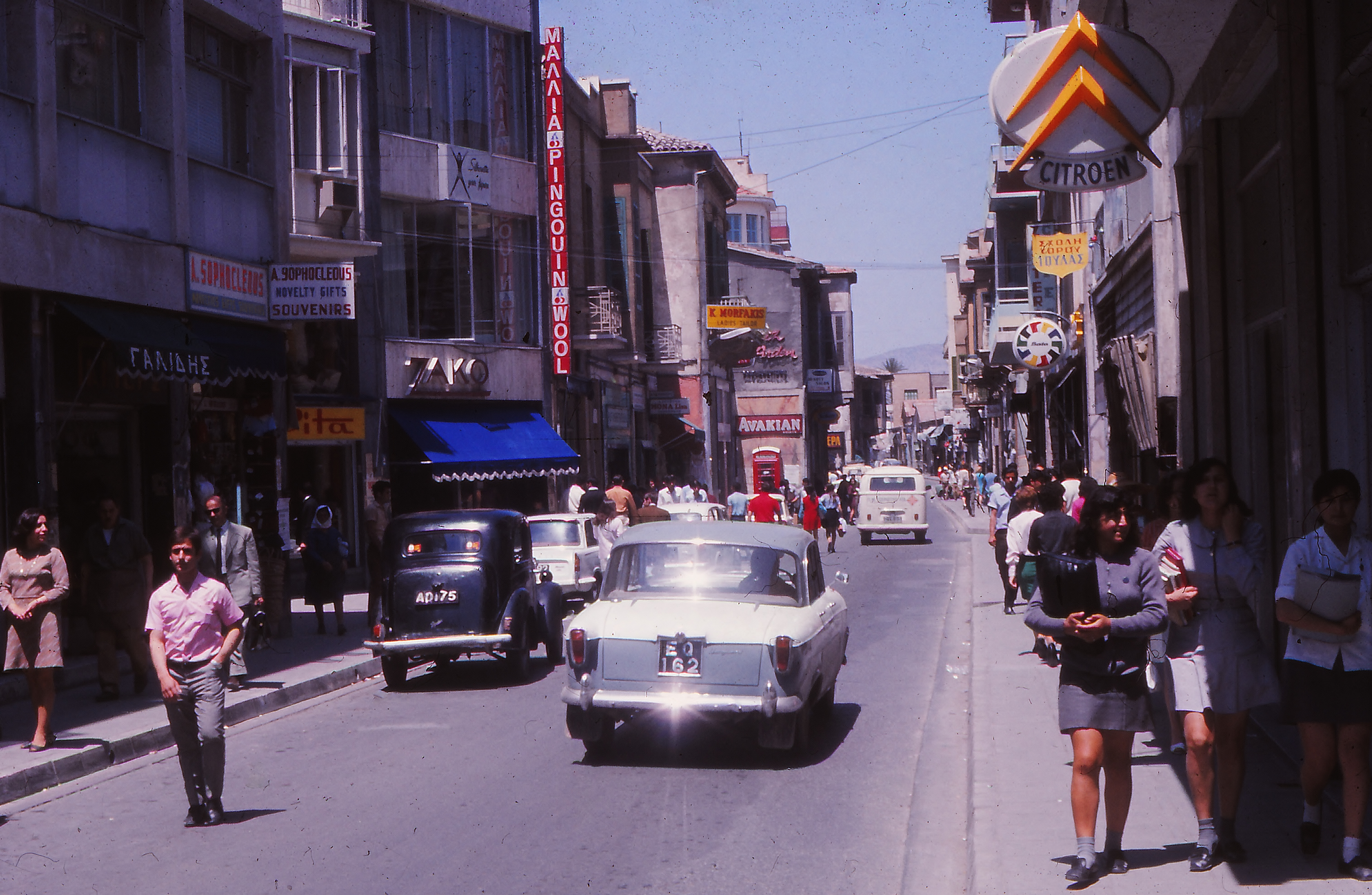 Ledra Street - the main shopping street in the Greek sector. During the EOKA struggle ( 1955 - 59) against British rule, Ledra street became known as " Murder Mile " in reference to the frequent targeting of British military and civilian personnel who, whilst shopping, were shot dead by EOKA .